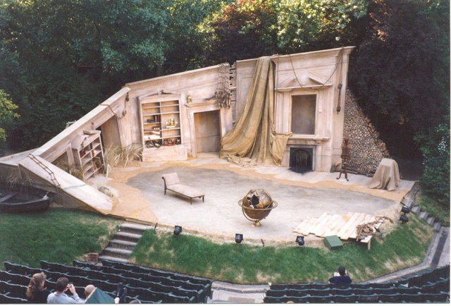 Open Air Theatre, Regent's Park